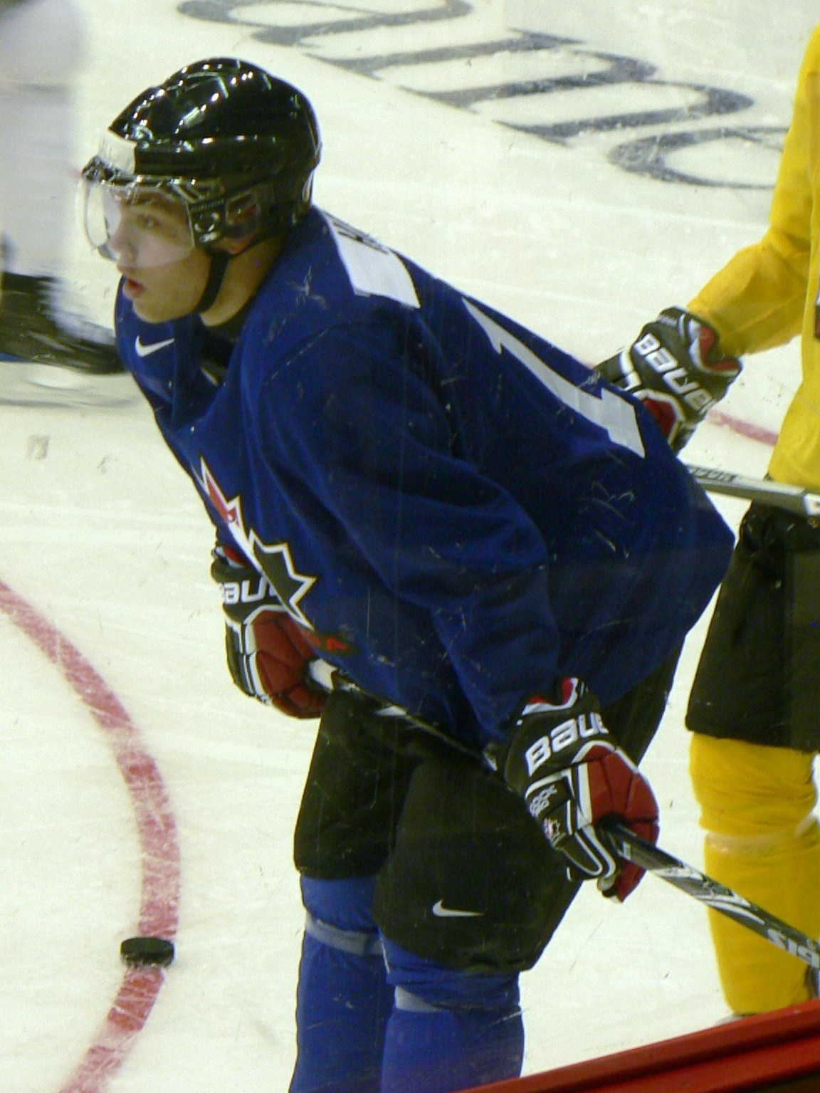 Taylor Hall at practice during Team Canada's selection camp for the 2010 IIHF World Junior Hockey Championships.